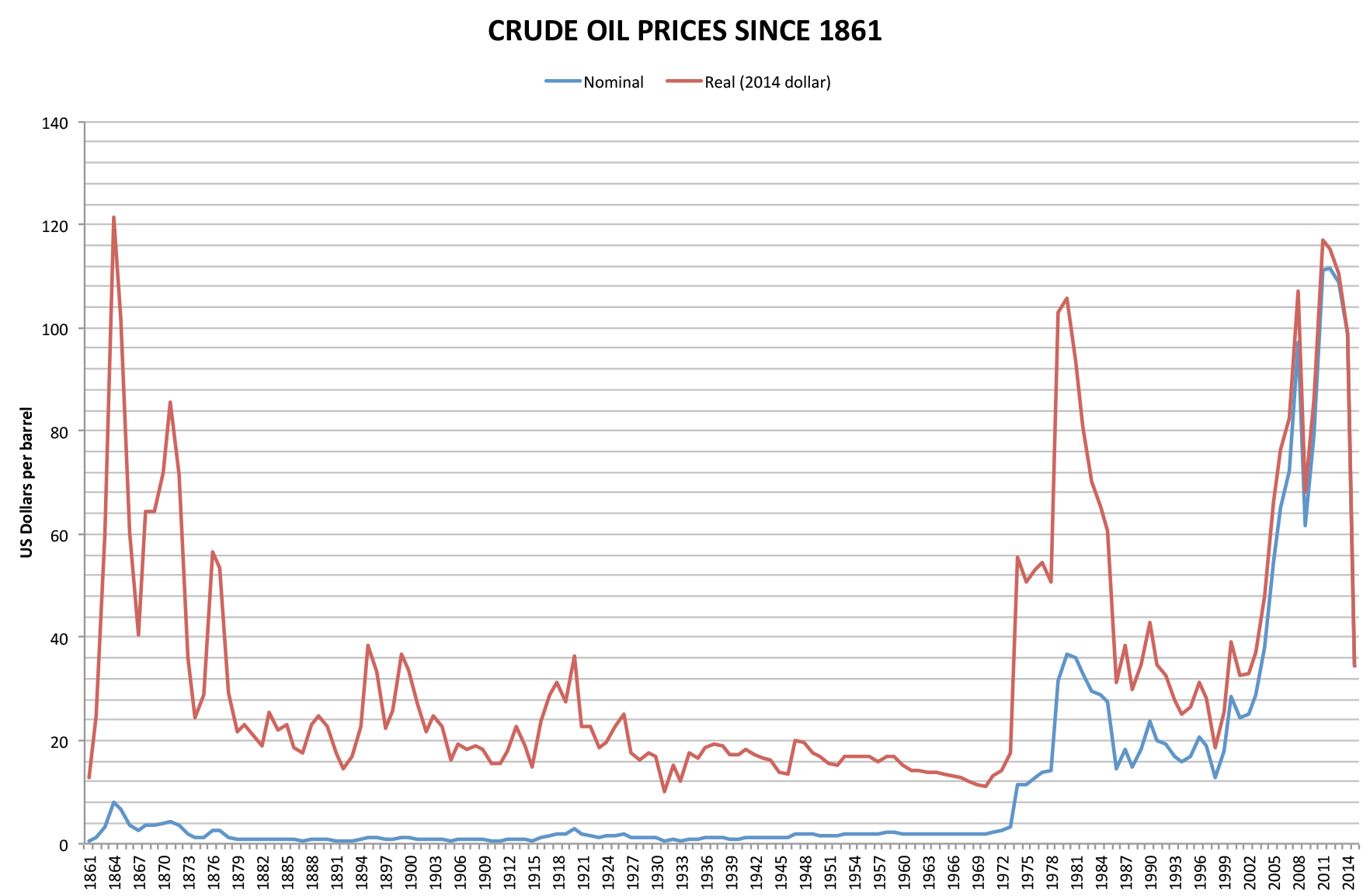 Crude oil prices from 1861 to 2011 (1861-1944 WTI, 1945-1983 Arabian Light, 1984-2011 Brent) (yearly average in US dollars per barrel)